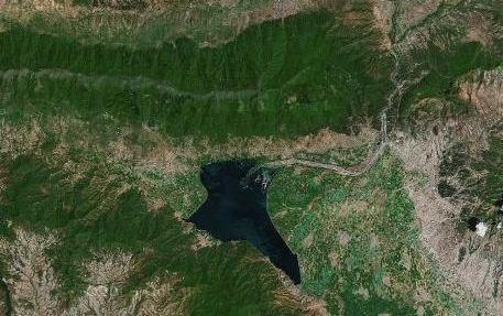 Satellite picture of Kerkini Lake